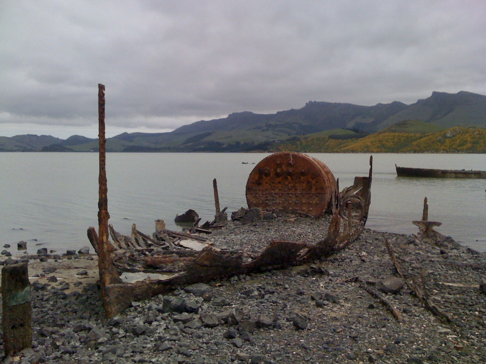 Shipwreck of the steamship Mullogh on Quail Island, Lyttelton, New Zealand